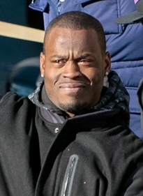 Seattle Seahawks backup quarterback Tarvaris Jackson on the quarterbacks' float at the Seahawks' post-Super Bowl parade.